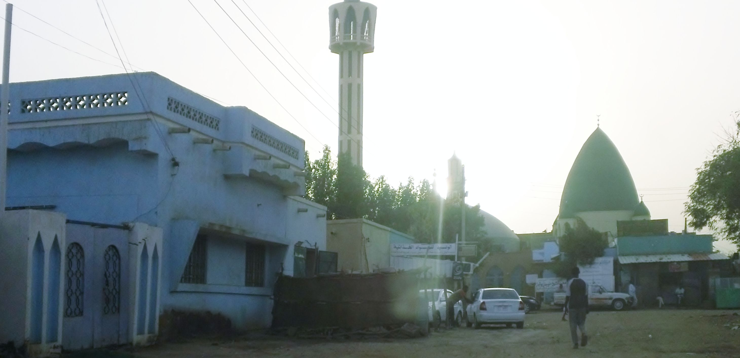 Hilt Khogli– Khartoum Bahri - Sudan